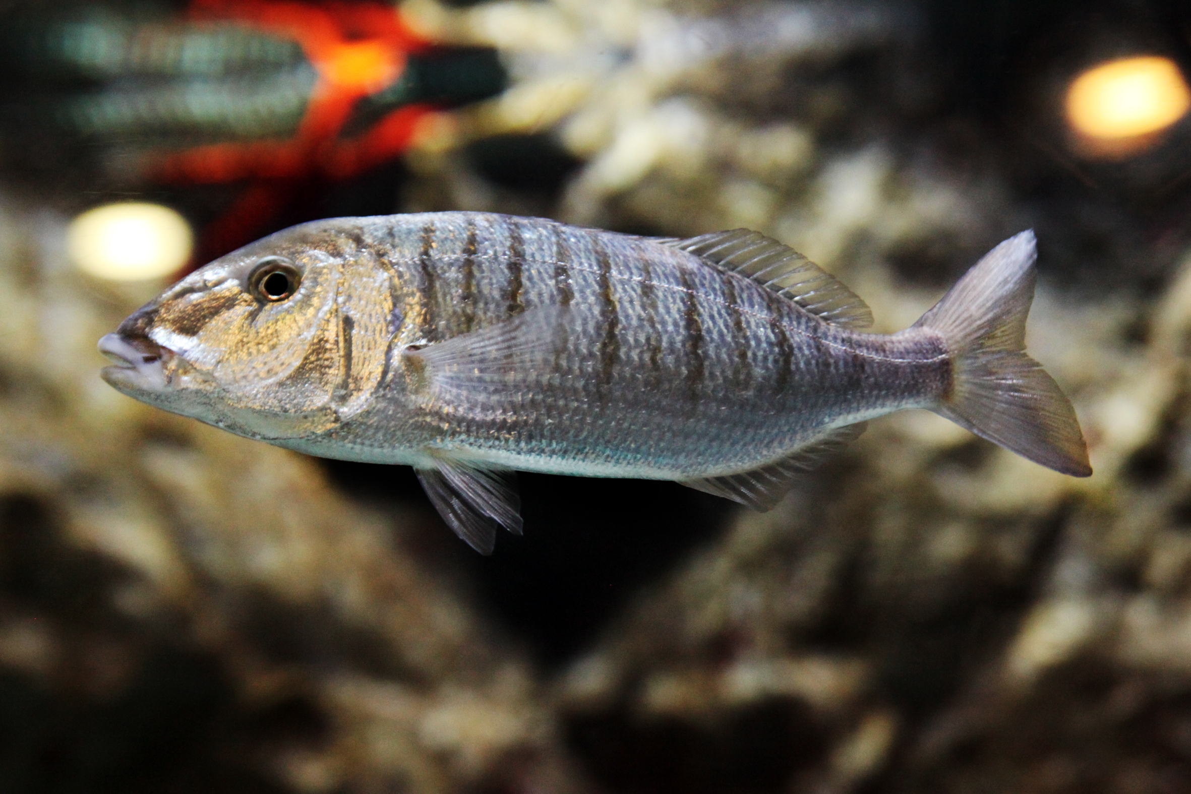 Streaped seabram in Milan, Civic Aquarium